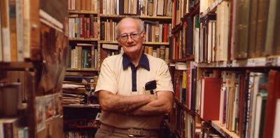 This is an image of the author R. A. Lafferty in his home, surrounded by a portion of his library.